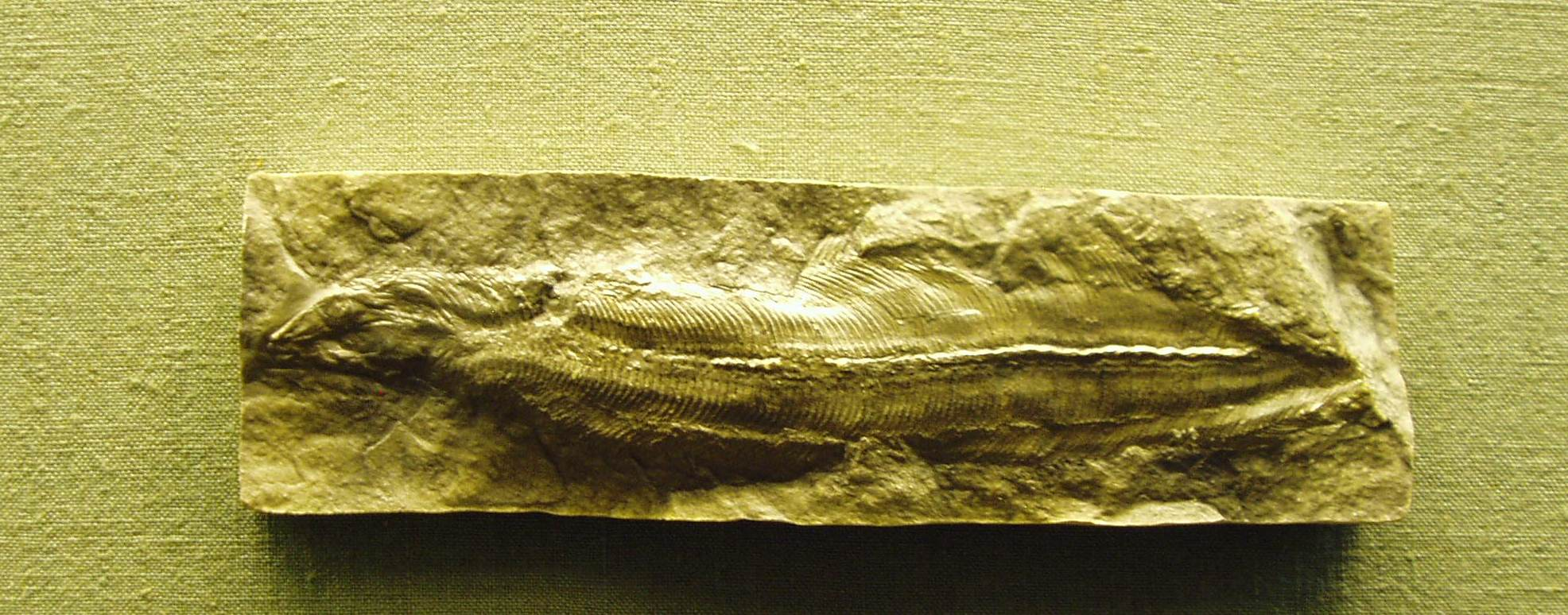 Pharyngolepis fossil in Göteborgs Naturhistoriska museum